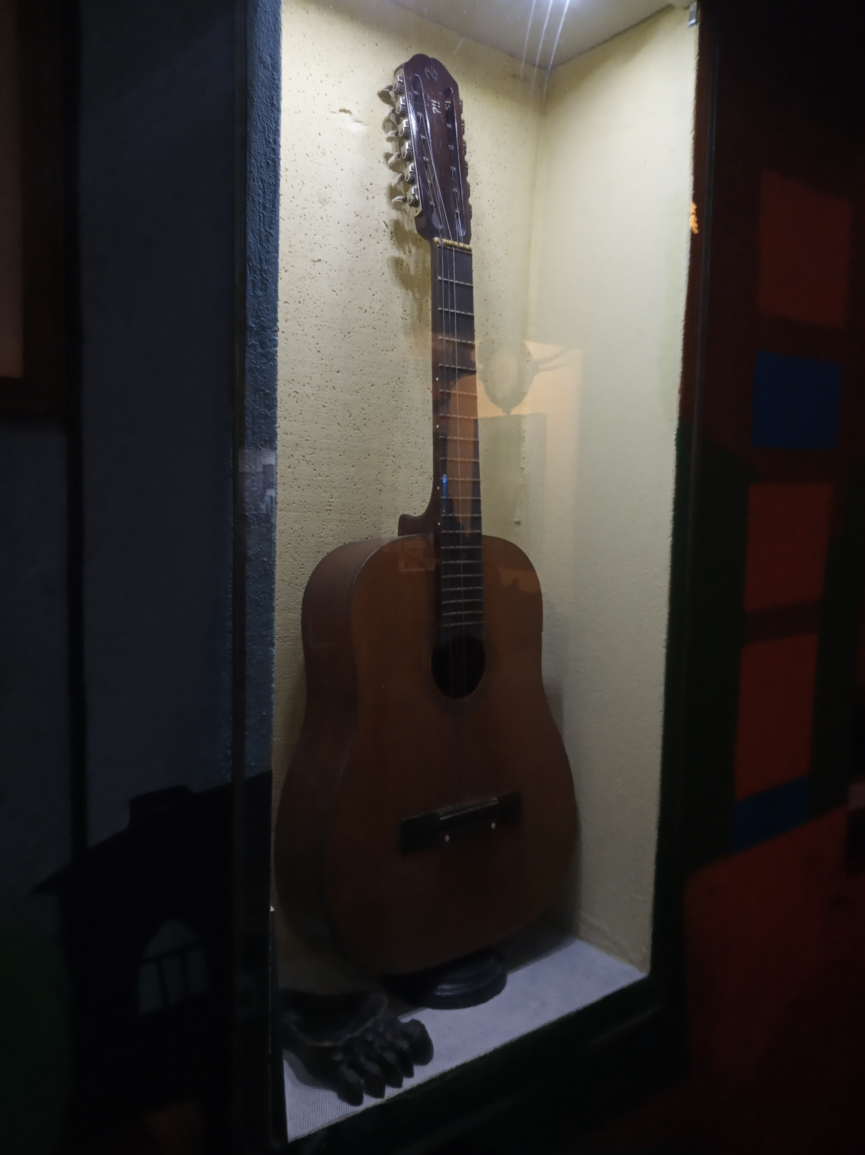 Blokhina Street, 15